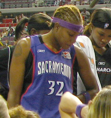 The Sacramento Monarchs try to come up with a plan to hold off the surging Detroit Shock in the fourth quarter of Game 2 of the WNBA Finals. It didn't work - Detroit won 73-63.